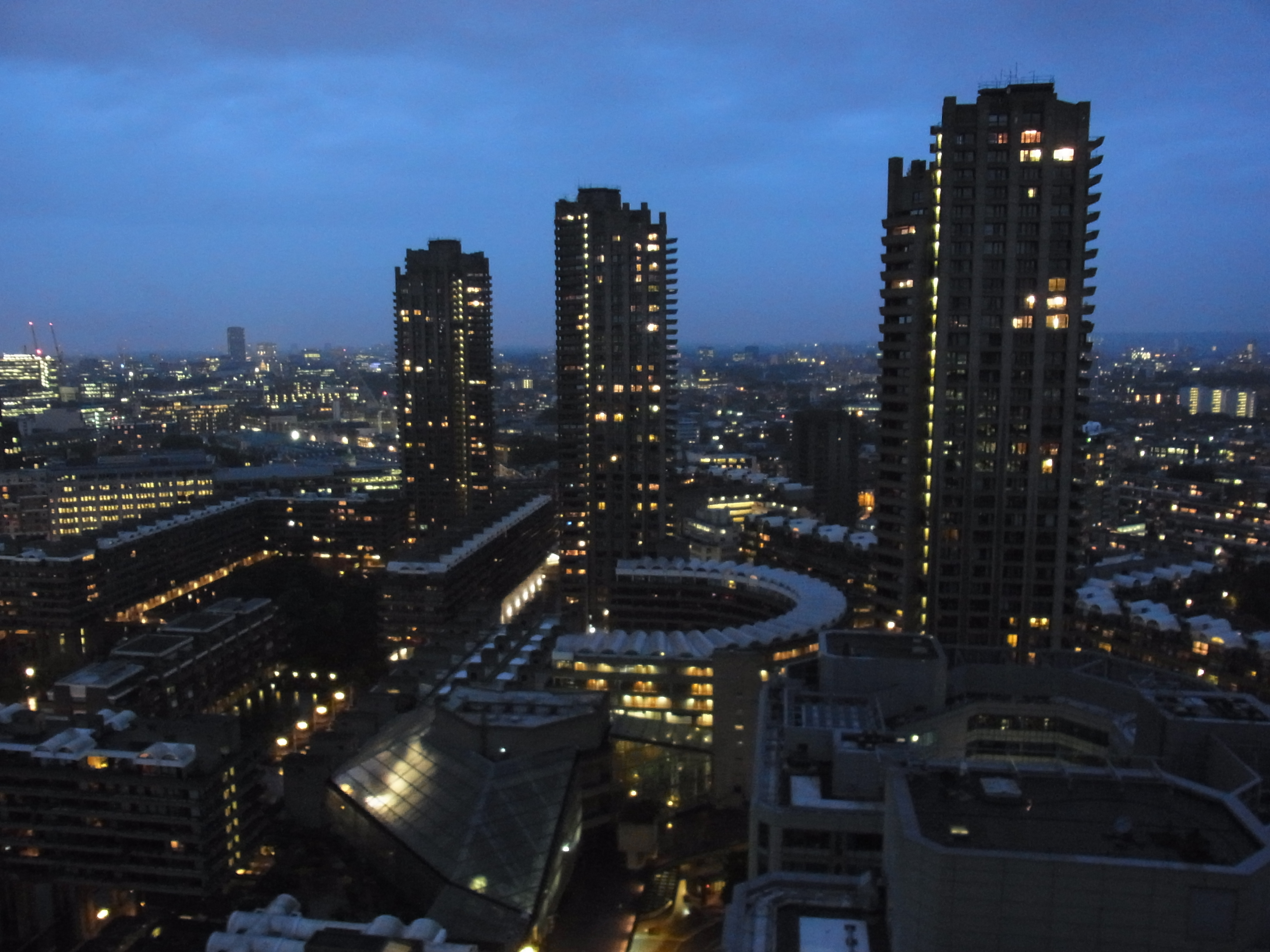 Top-down view of the Barbican